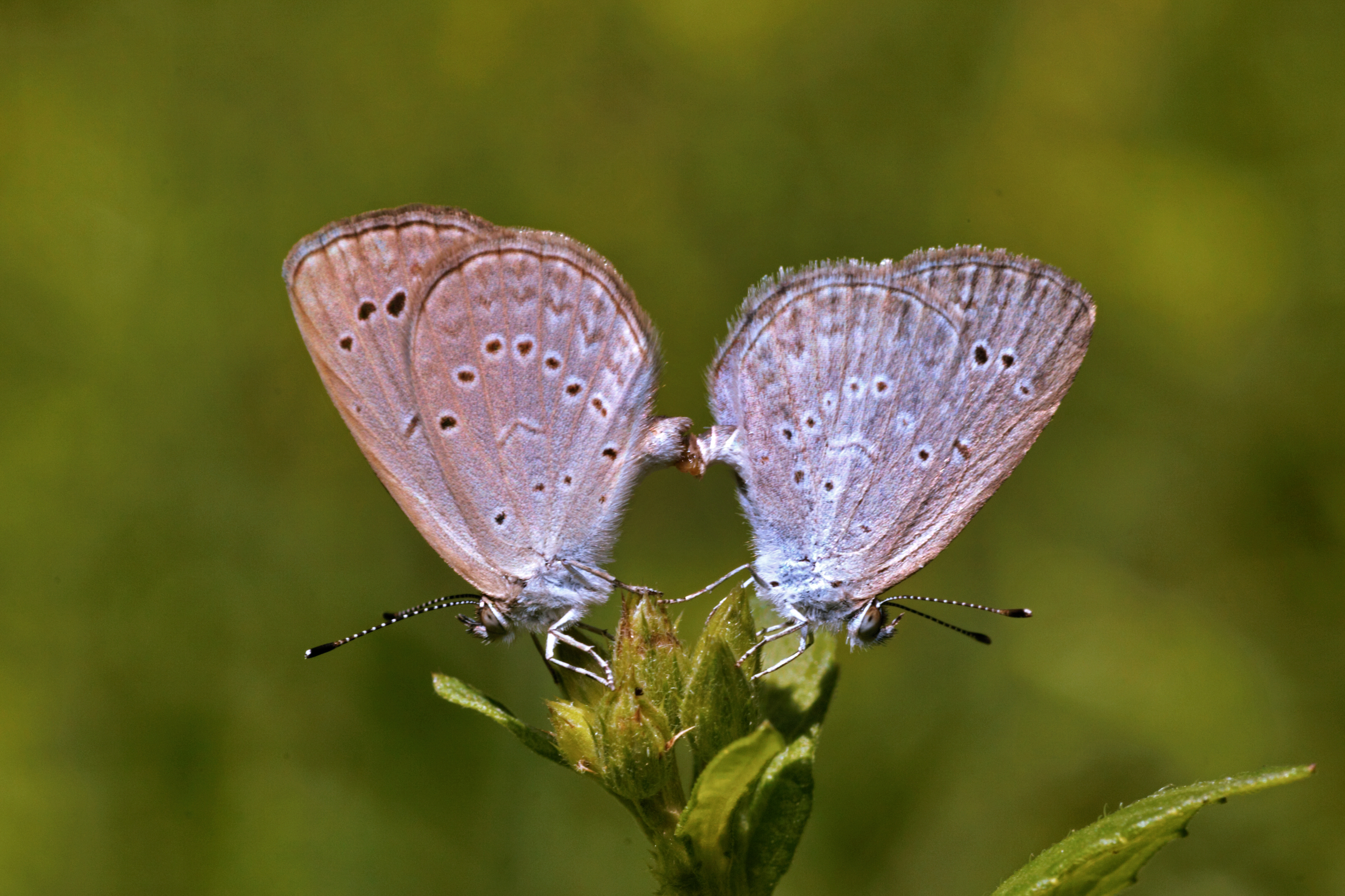 Mating pair of Pseudozizeeria maha, the pale grass blue butterfly. It is a species of blues family. Photo taken from Wayanad, Kerala